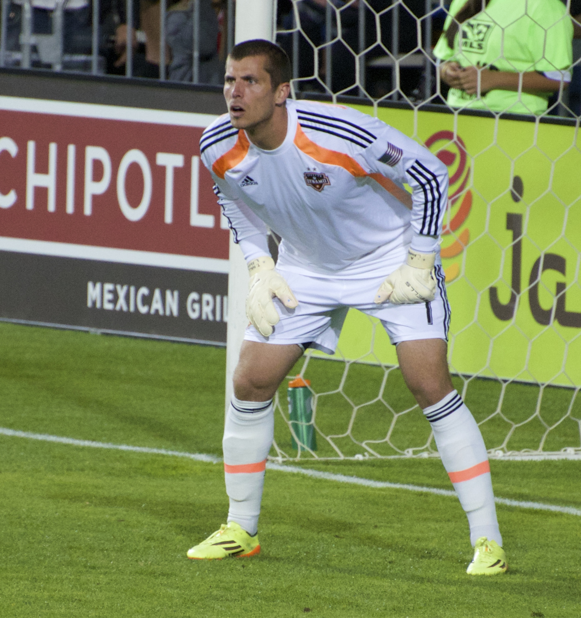 Tally Hall, Houston Dynamo vs San Jose Earthquakes, Buck Shaw Stadium, 25 May 2014